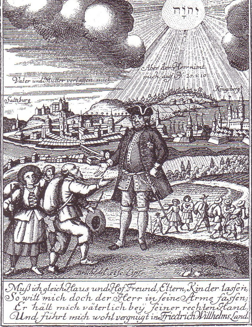 Welcome of the Salzburg emigrees in Prussia